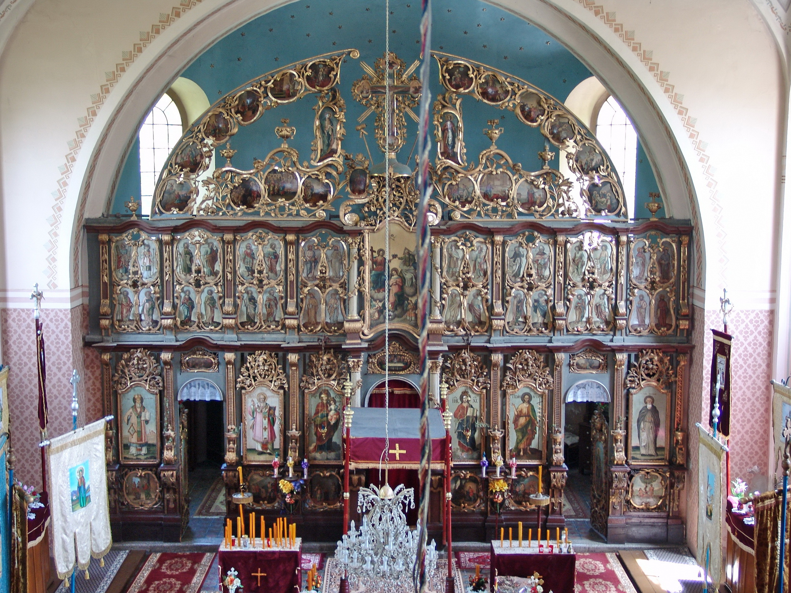 Romanian Orthodox church in Ečka - iconostasis